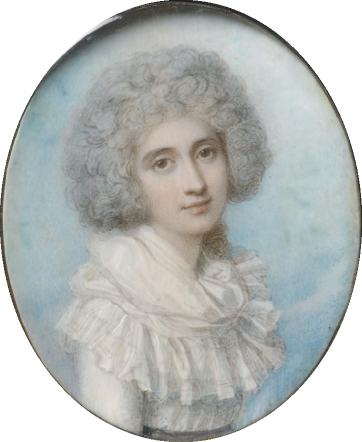 Portrait of the Princess Izabela Lubomirska